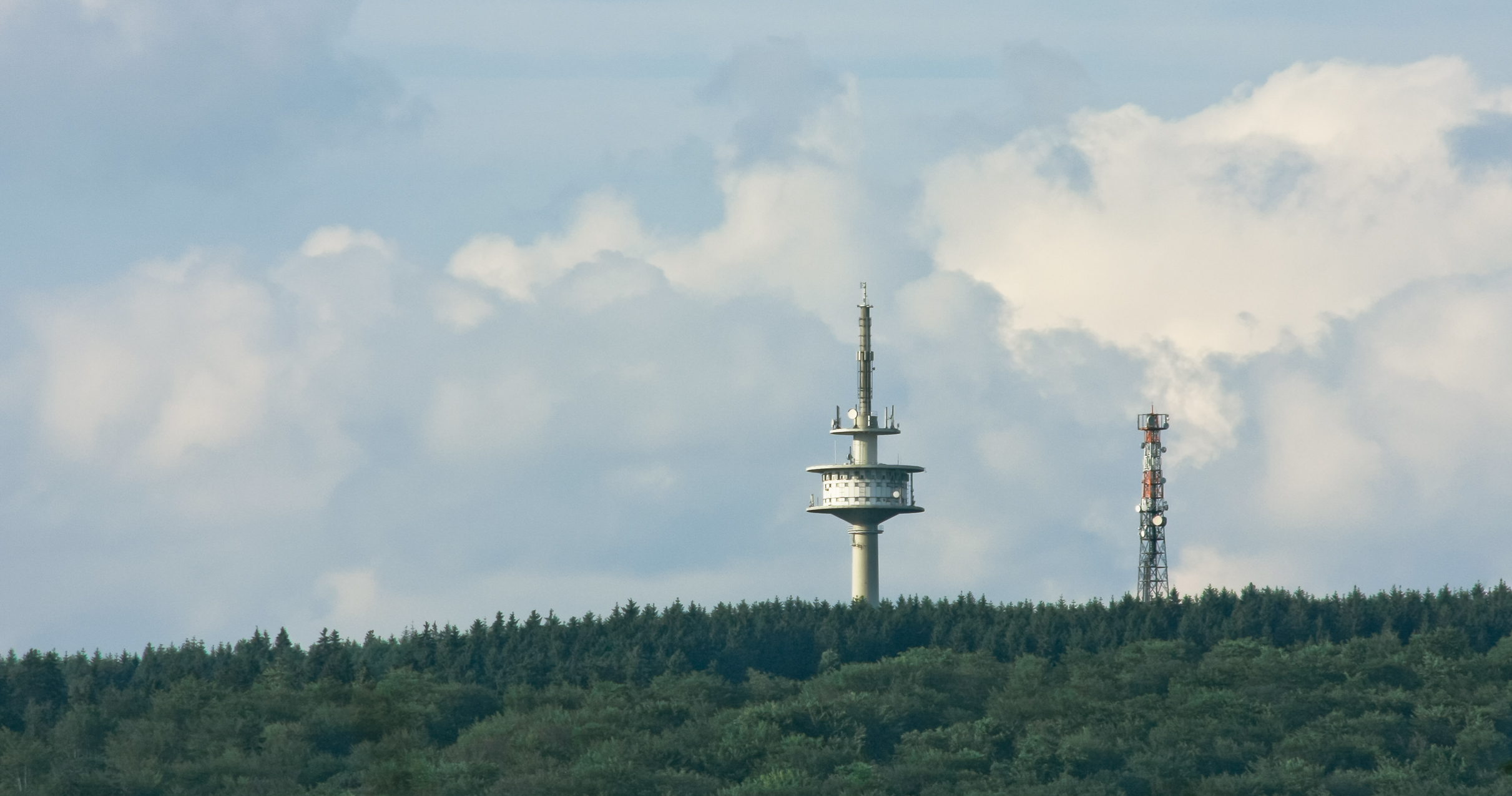 Telecommunication towers on the Alarmstange, Montabaurer Höhe